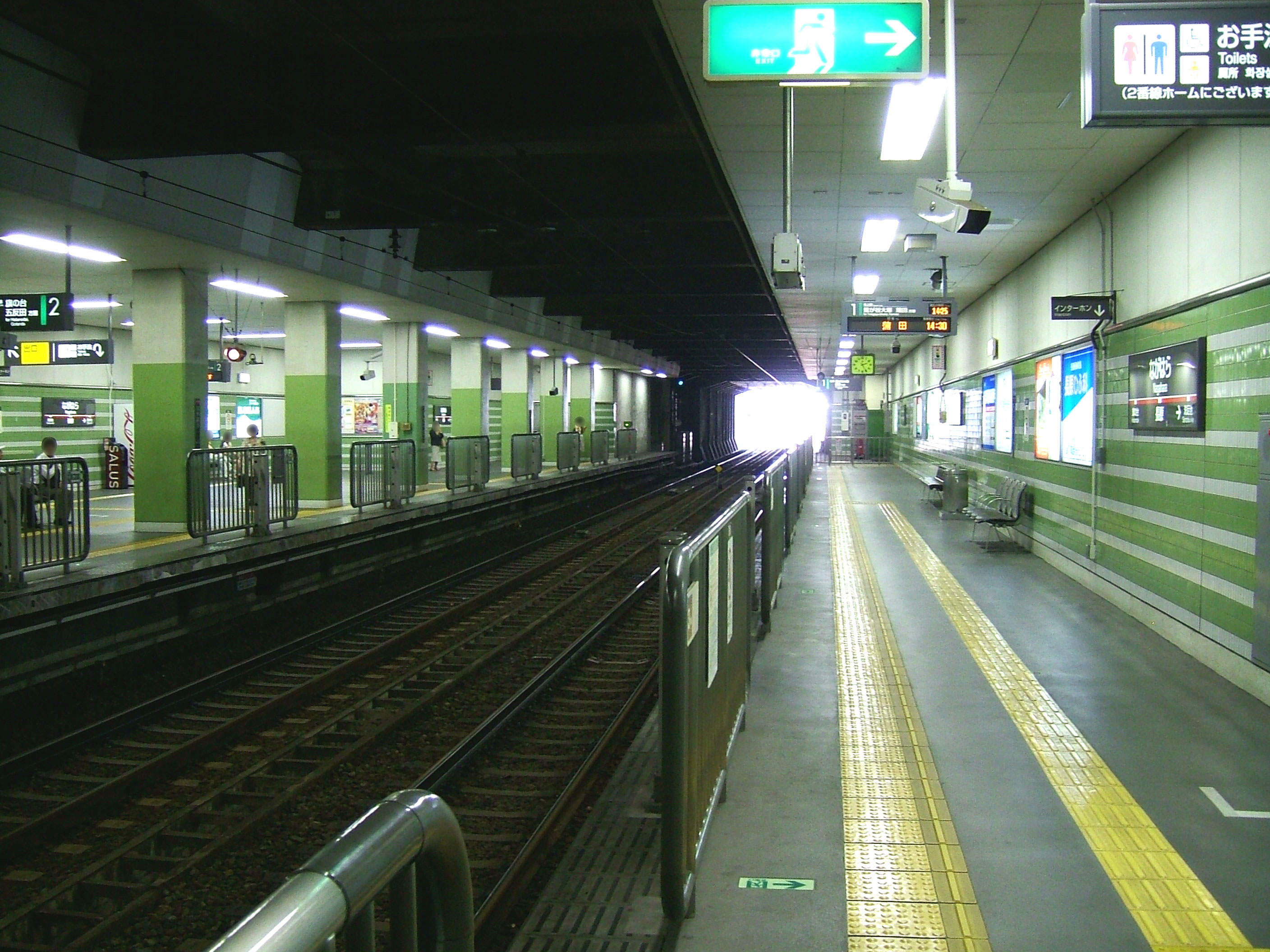 Nagahara Station platform (Tōkyū Ikegami Line)